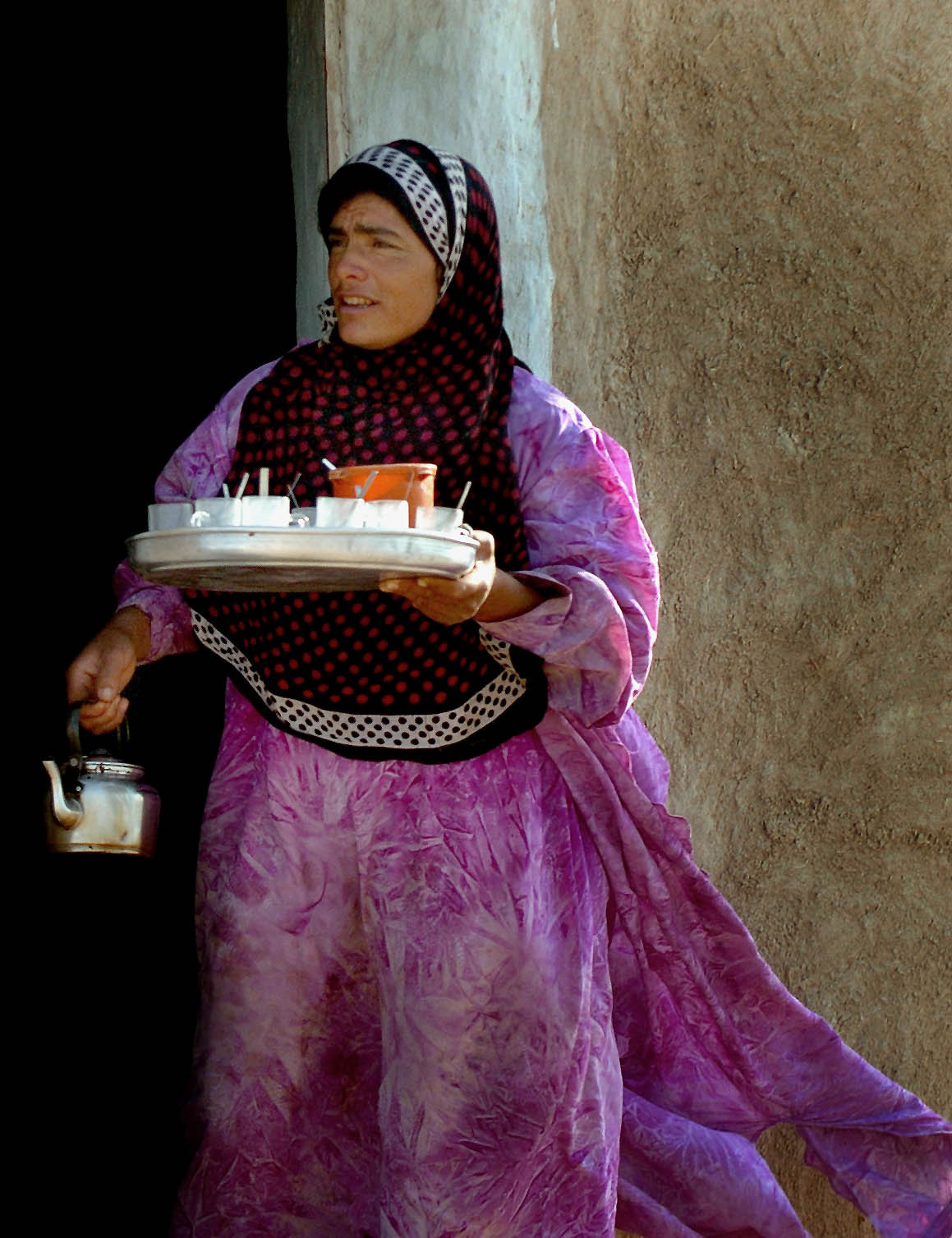 A Yezidi woman offers chai tea to U.S. Army soldiers near the Sinjar mountain range along the Syria/Iraq border.